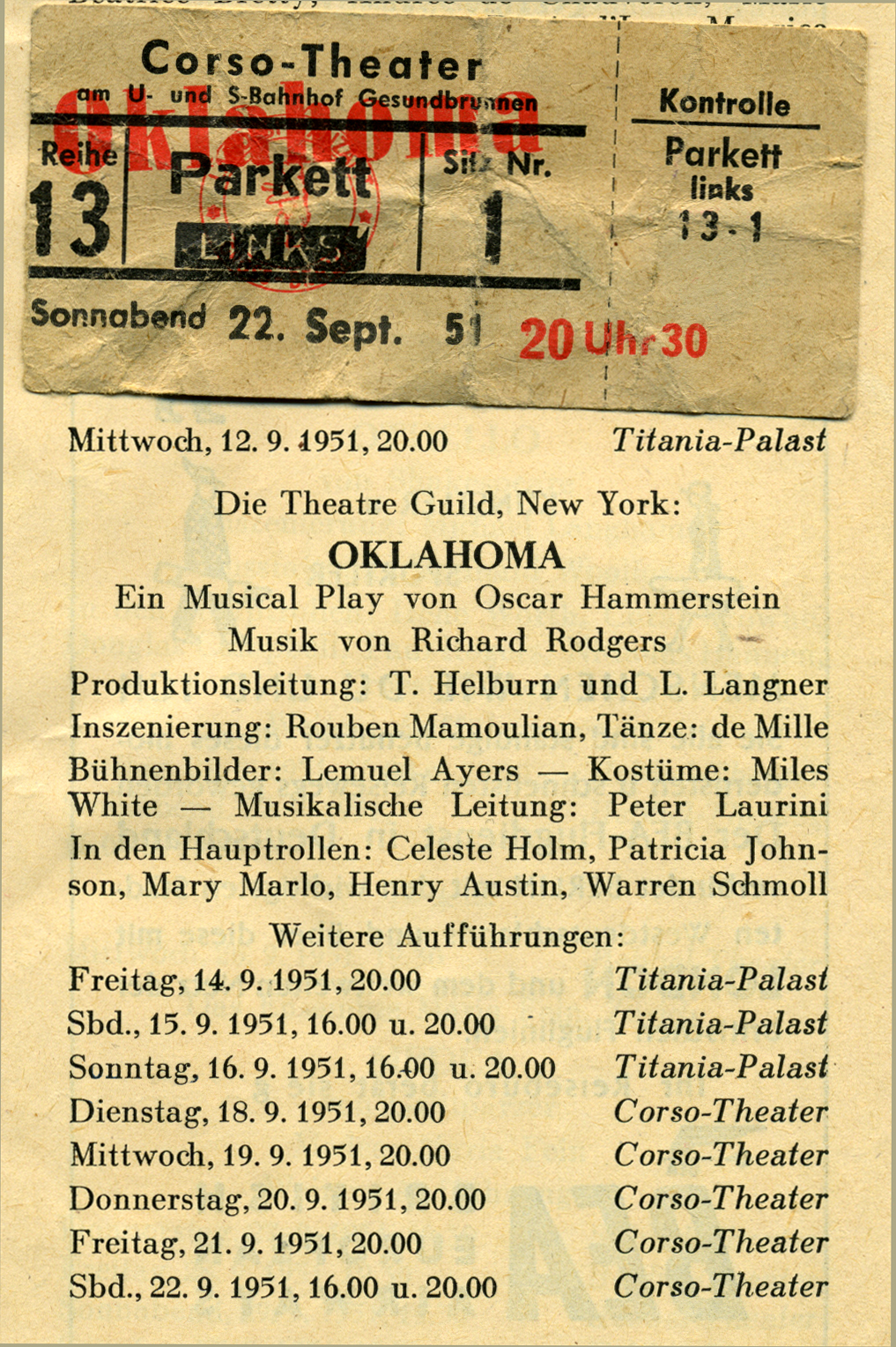 EPSON scanner image